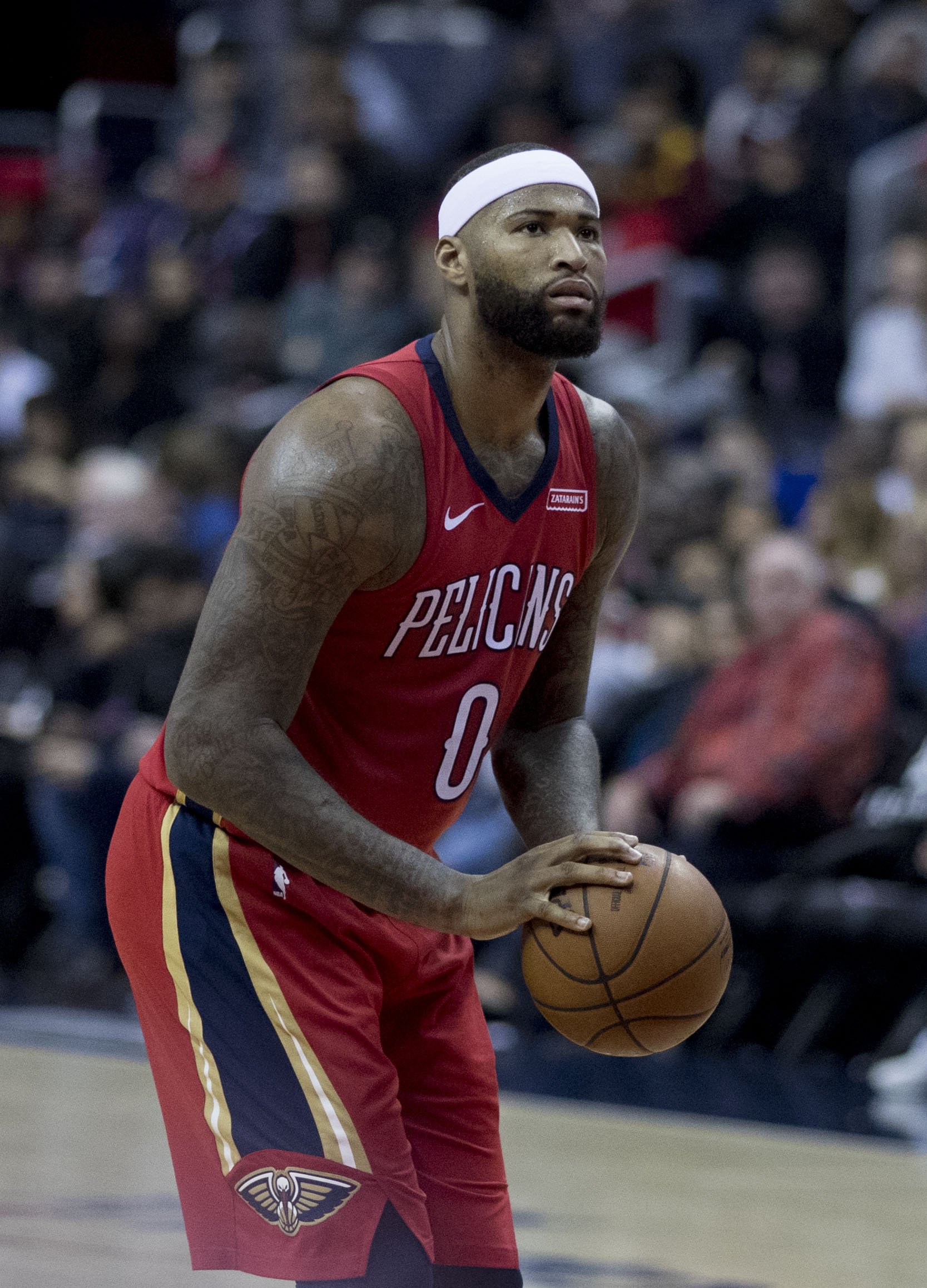 DeMarcus Cousins, Pelicans at Wizards 12/19/17